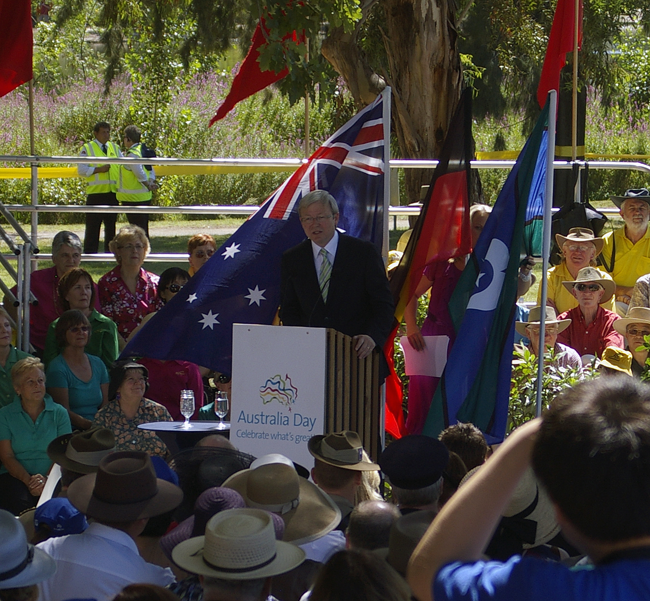 Kevin Rudd speaking at the Australia Day 2010 citizenship ceremony.